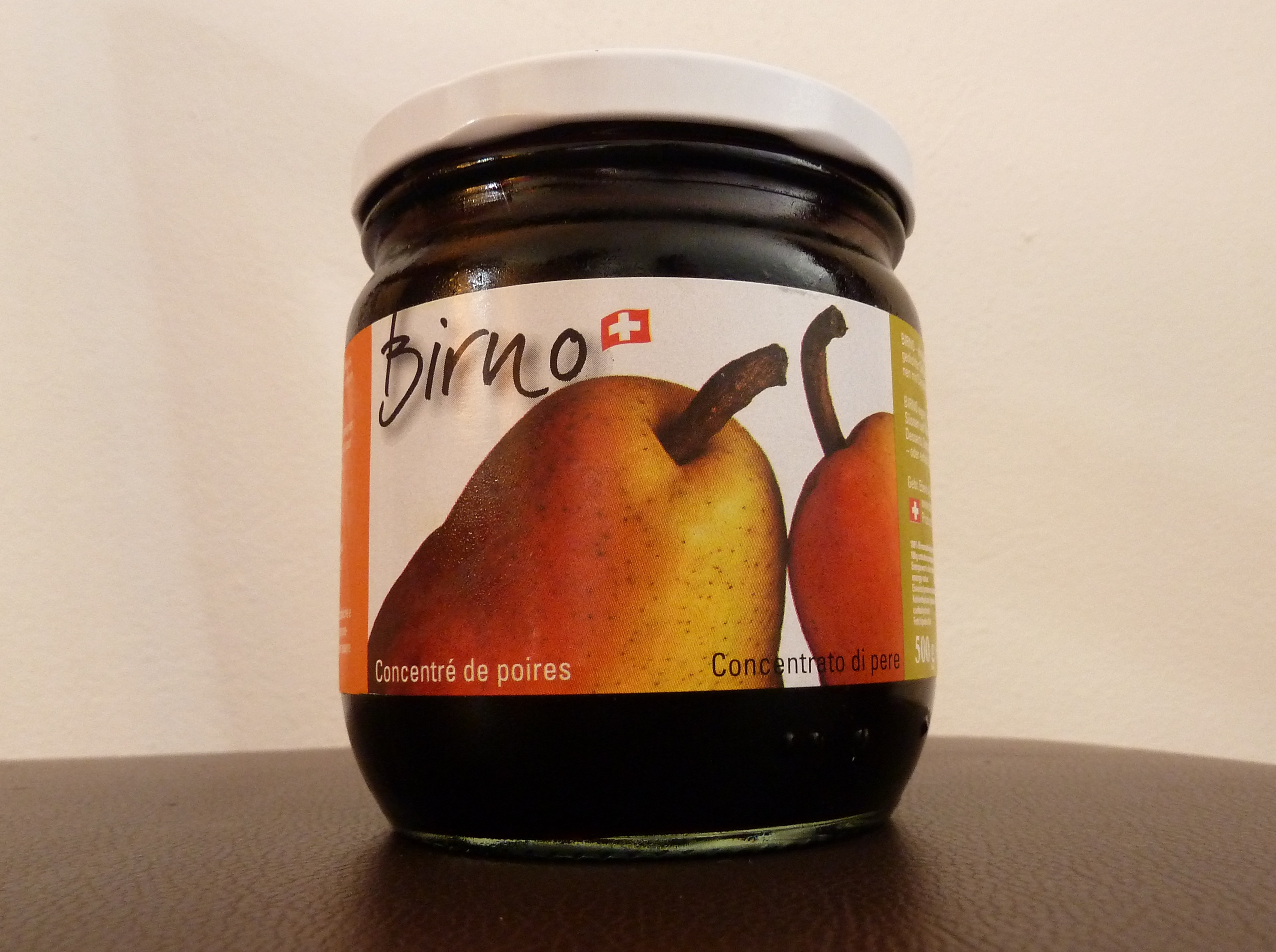 Birnenhonig - a Swiss speciality to eat together with bread or to use as ingredient for ginger bread